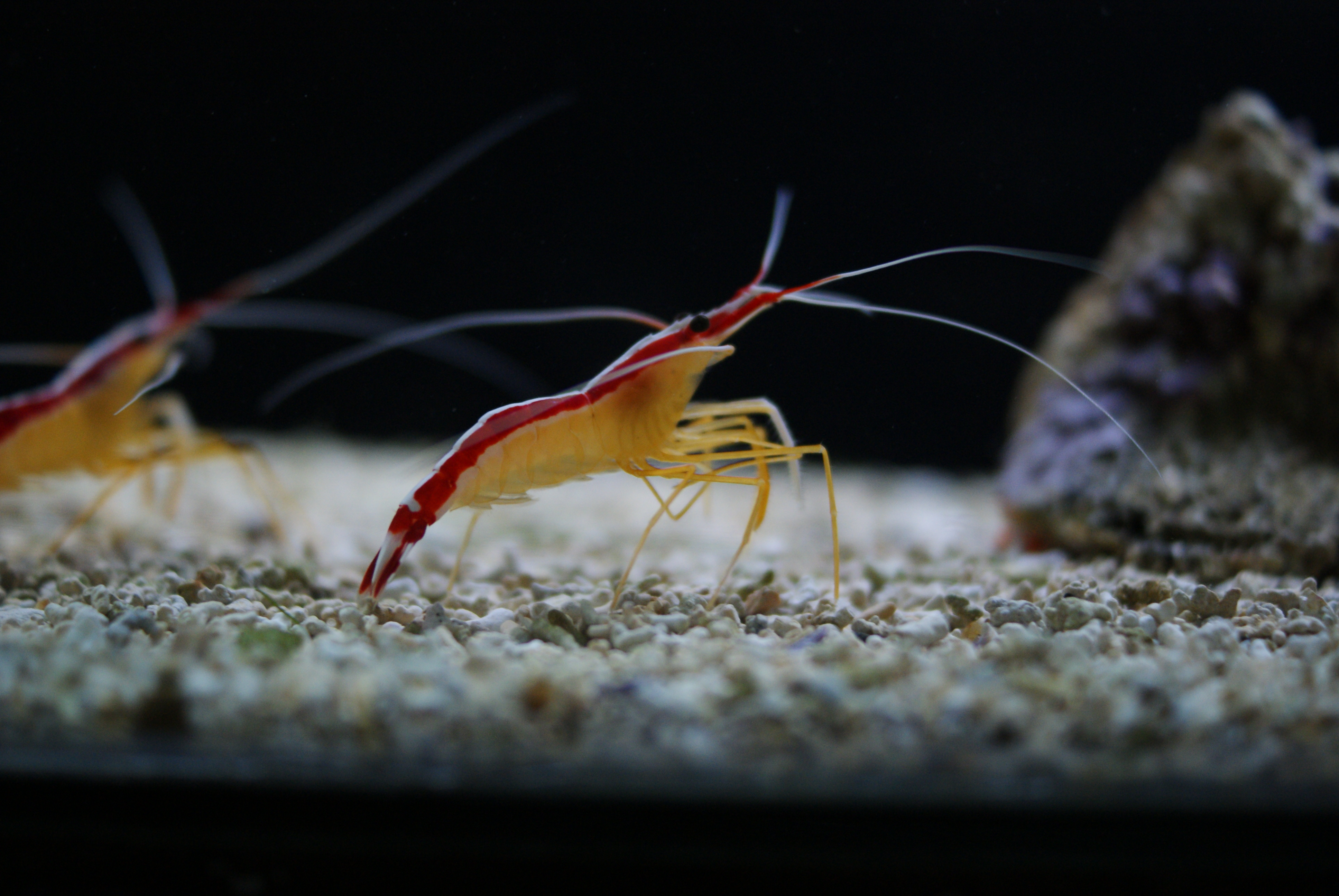 Lysmata amboinensis in Tropicarium-Oceanarium Budapest